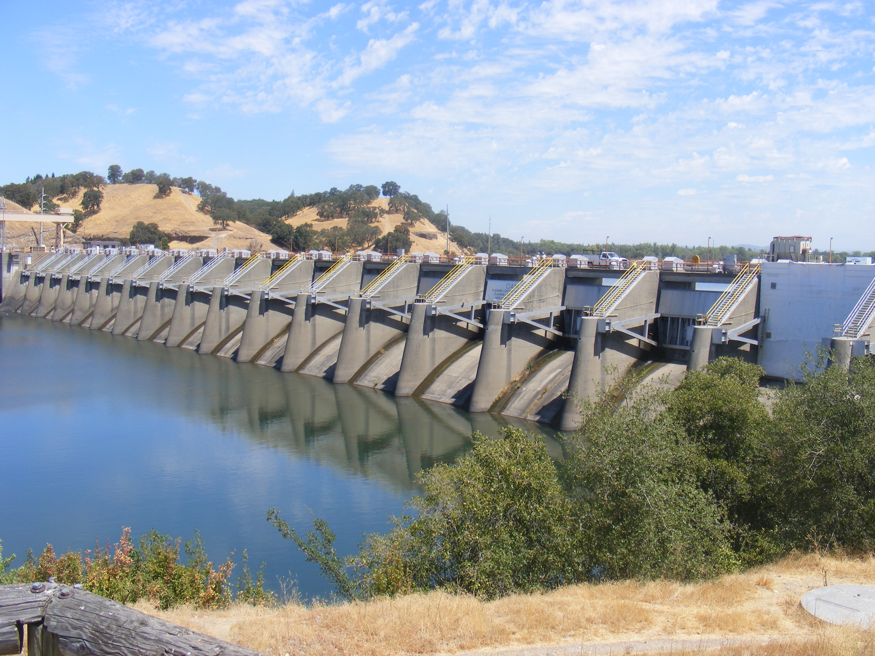 A photo of the down-river side of Nimbus Dam on the American River several miles from Folsom Dam in California. Some construction work can be seen on the far-right hand side. Photo taken July 30, 2008. Notes If you are a publisher and would like to use these images under a different license please contact me and we can negotiate different terms. You can find my entire image collection here: User:J.smith/gallery